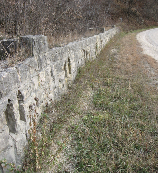 Zumbro Parkway Bridge showing gothic cutouts. Taken by User:mazzmn, 28 Oct, 2006